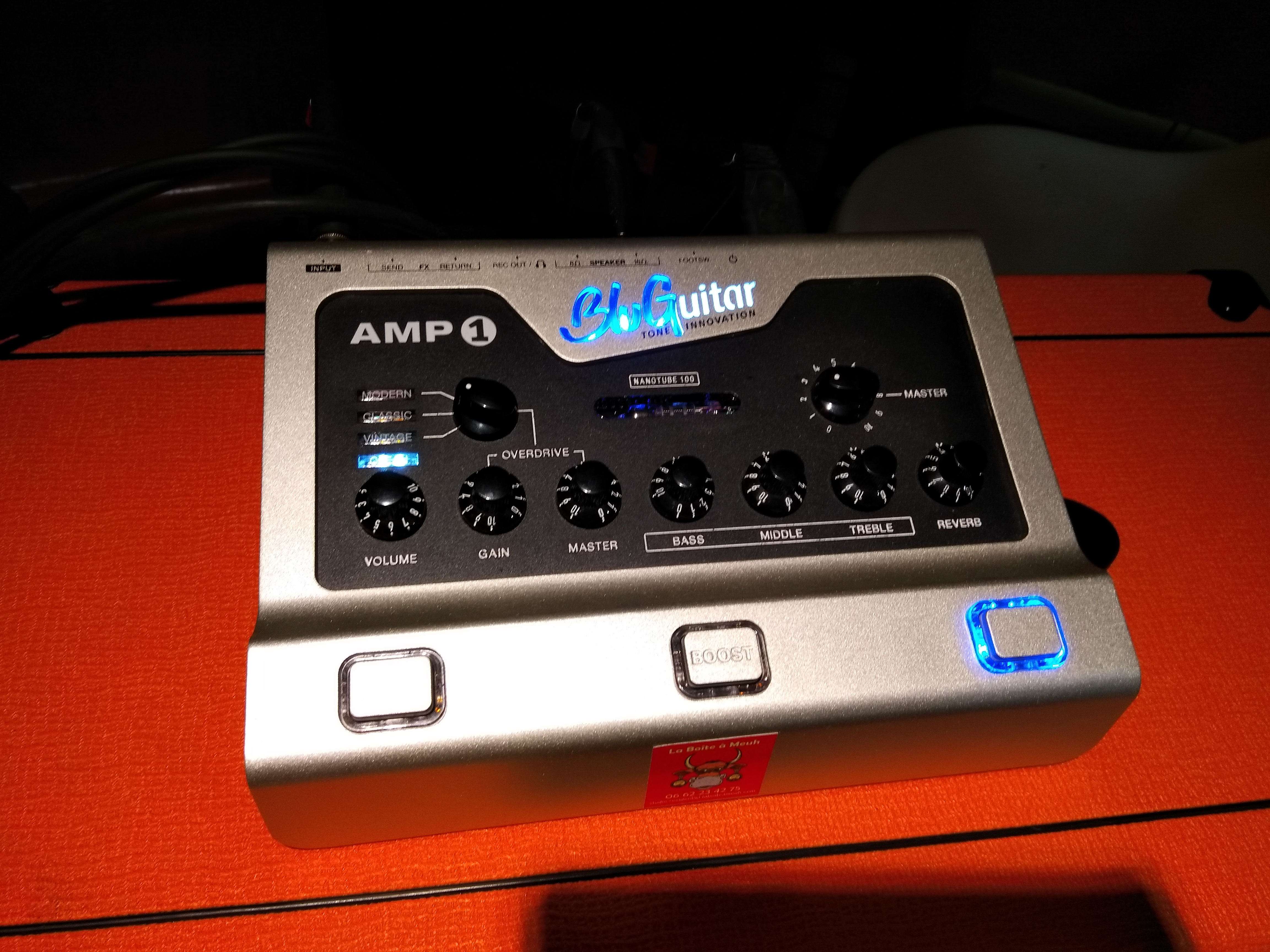 Tube amp head in a pedal format, the Bluguitar Amp1.